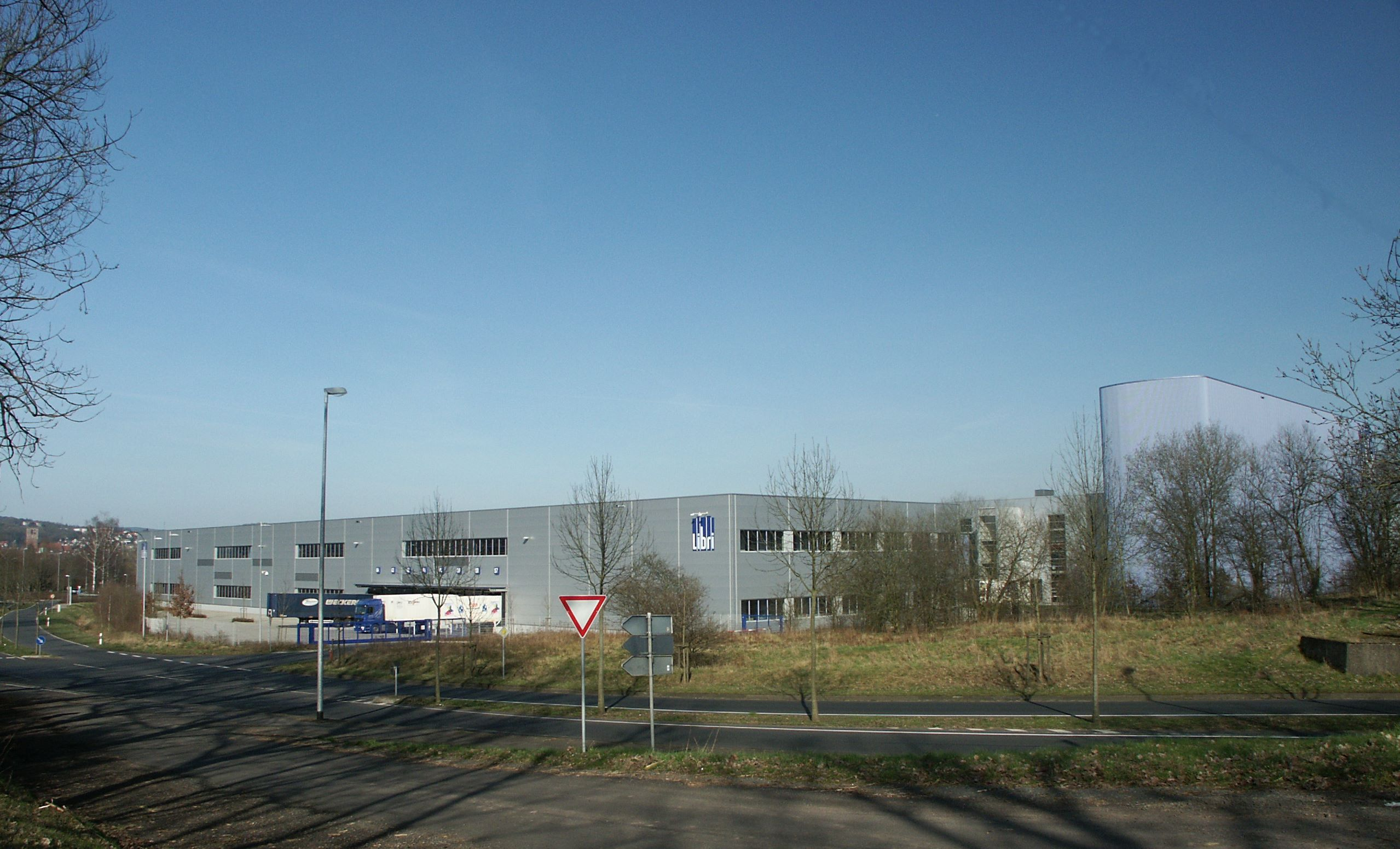 Logistic Center of the book wholesaler LIBRI in Bad Hersfeld